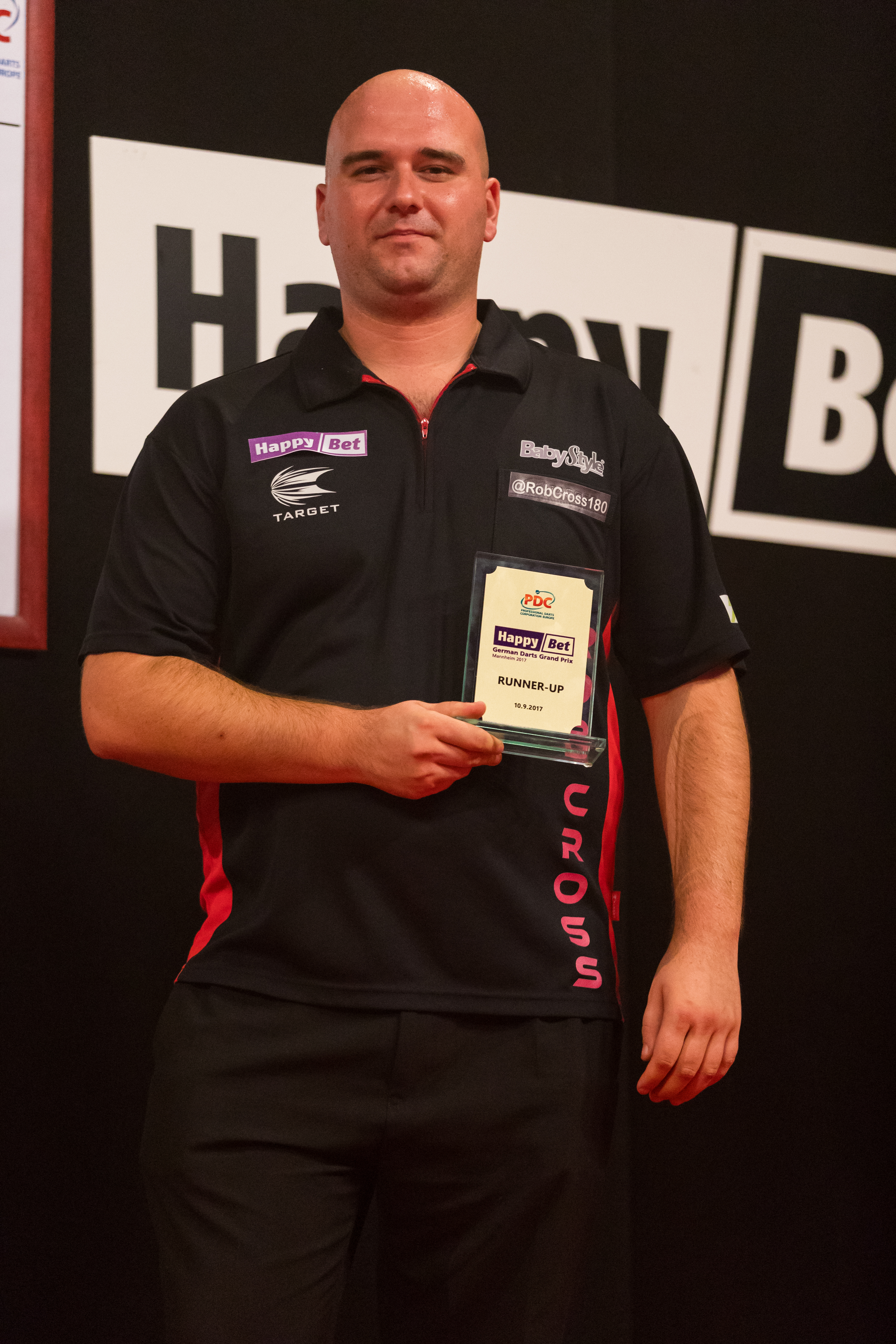 Final: [14] Rob Cross (ENG) 3:6 [1] Michael van Gerwen (NED) during Professional Darts Corporation (PDC), German Darts Grand Prix (GDGP) at Maimarkthalle, Mannheim, Baden-Württemberg, Germany on 2017-09-10, Photo: Sven Mandel